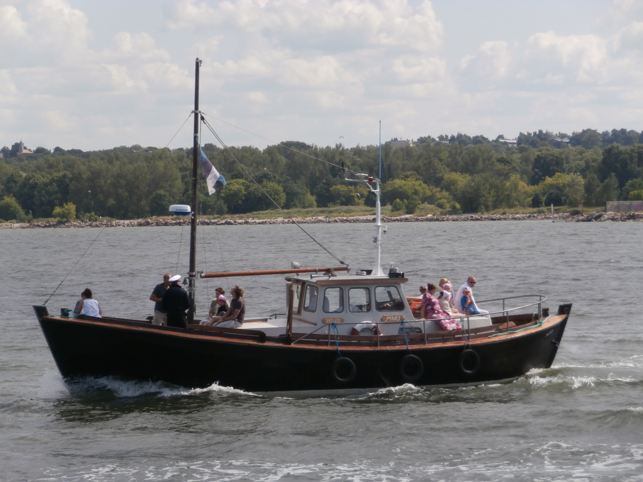 Mari departing Old City Tallinn 14 July 2013